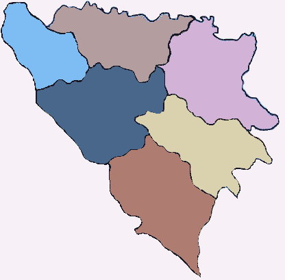 Self-made image of provinces of Bosnia and Herzegovina during Austria-Hungary administration.